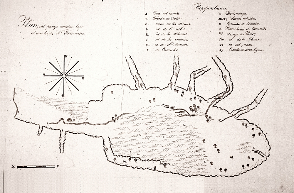 Map of Rancho San Francisco, in what is now northern Los Angeles County, California, United States. Legend: A. Casa del Rancho (Ranch House) B. Cañada de Castéc (Castaic Canyon) C. Cañada de los Alamos (Poplar Canyon) D. Cañada de los Robles (Oak Canyon) E. Cañada de la Soledad (Canyon of Solitude) F. Cañada de los Encinos (Evergreen Oak Canyon) G. Tochananga [a Tataviam Indian village] HIJKL. Lomas Esterilos (Sterile Hills) M. Cañada de San Martin (St. Martin Canyon) N. Entrada de Camulos (Entrance to Camulos) O. Rancheria de Camulos (Camulos Village) P. Cañada de Camulis (Juniper Canyon -- Camulis is a Chumash word, not Spanish) QR. Arroyo de Pirro (Piru Creek) STV. Arroyo de la Soledad (Creek of Solitude) WZ. Arroyo de la Placer (Placerita Creek) XY. Escala de una Legua [Scale of the map — from point X to point Y is one league]